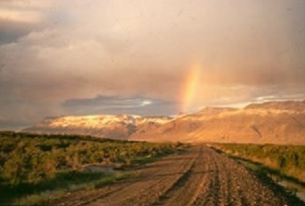 Sunset rainbow on Frenchglen-Hart Mountain Road in the Catlow Valley, Harney County, Oregon.